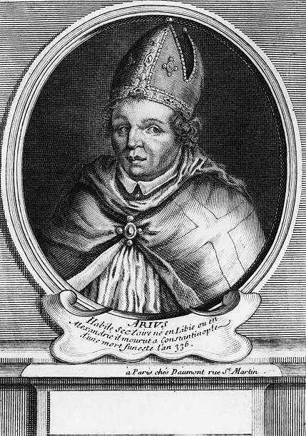 Arius (AD 250 or 256 – 336) was a Christian presbyter from Alexandria, Egypt.